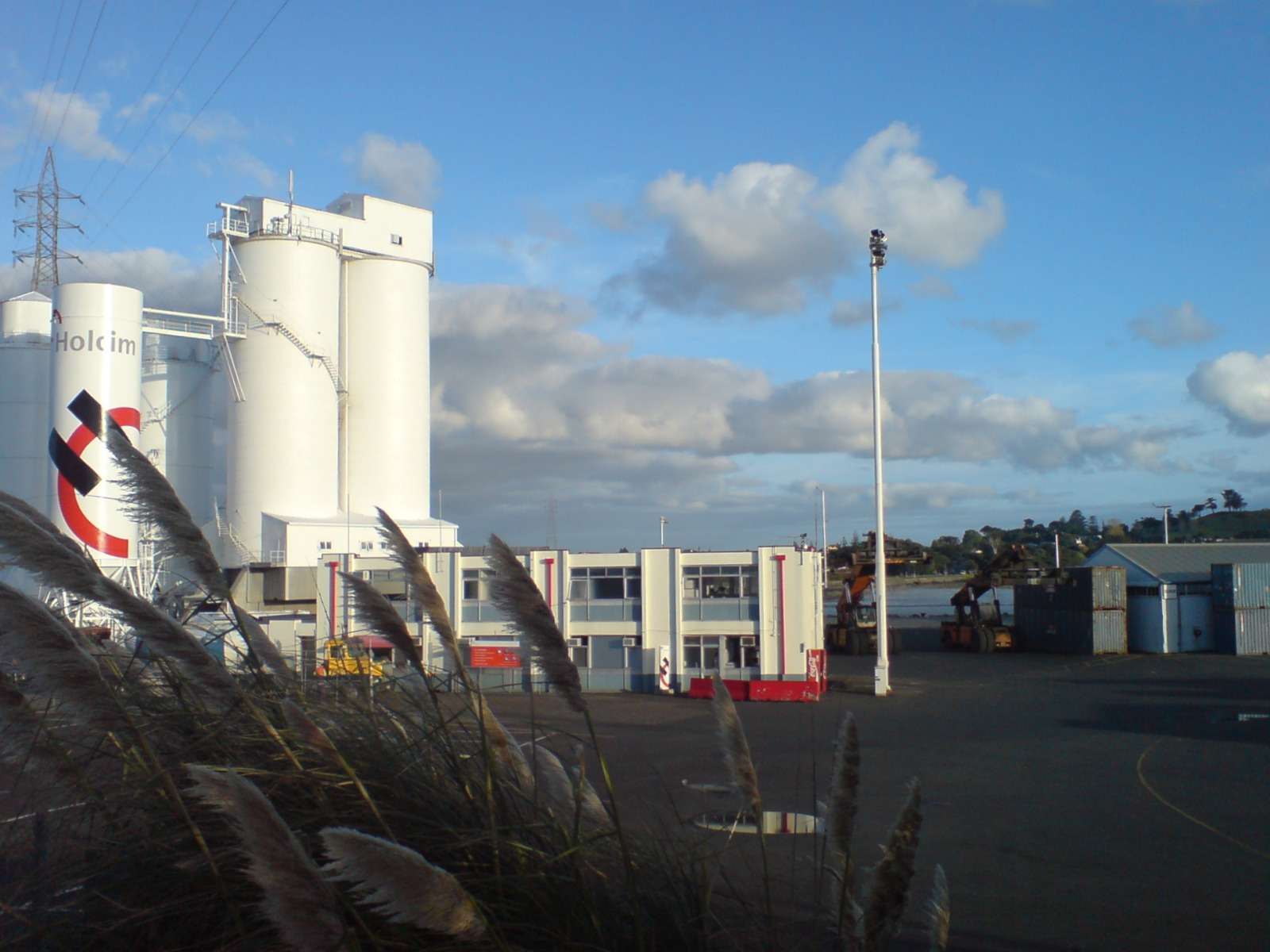 A Holcim silo depot at the Port of Onehunga, Onehunga, Auckland, New Zealand.